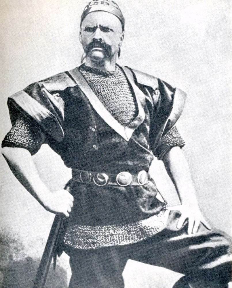 Russian bass, Feodor Chaliapin (1873 - 1938)